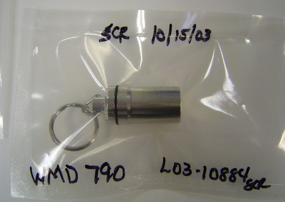 An FBI photograph of the small metal vial included with a ricin contaminated letter that was discovered on October 15, 2003 in Greenville, South Carolina. The vial contained ricin powder. The letter was addressed to the U.S. Department of Transportation.